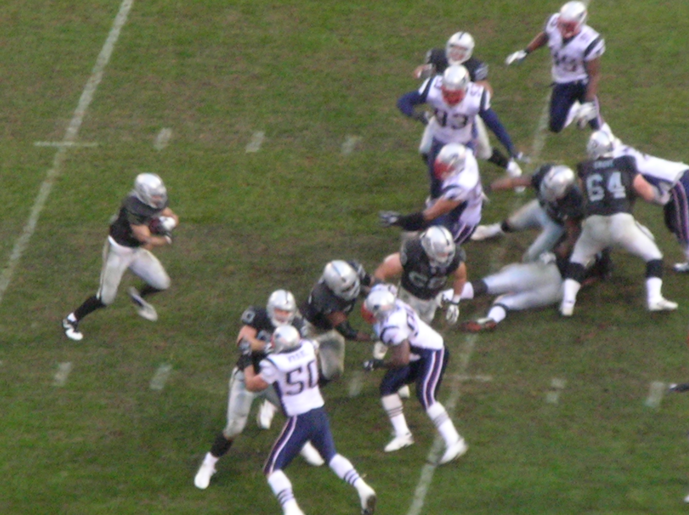 The Oakland Raiders on offense during a home game against the New England Patriots. The Patriots won 49-26.